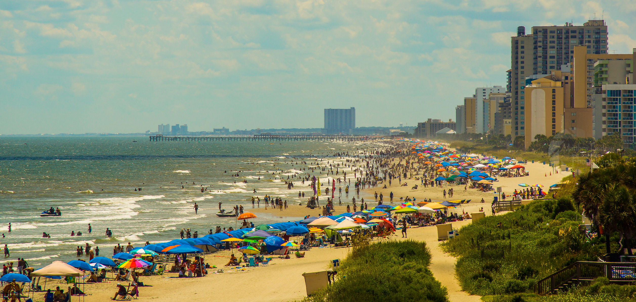 This is taken in Myrtle Beach SC